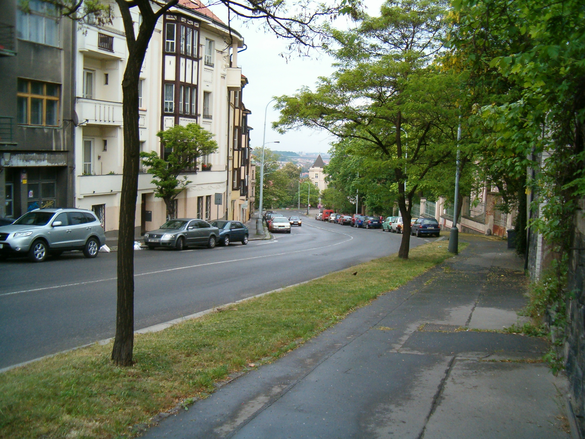 Na Václavce street in Prague